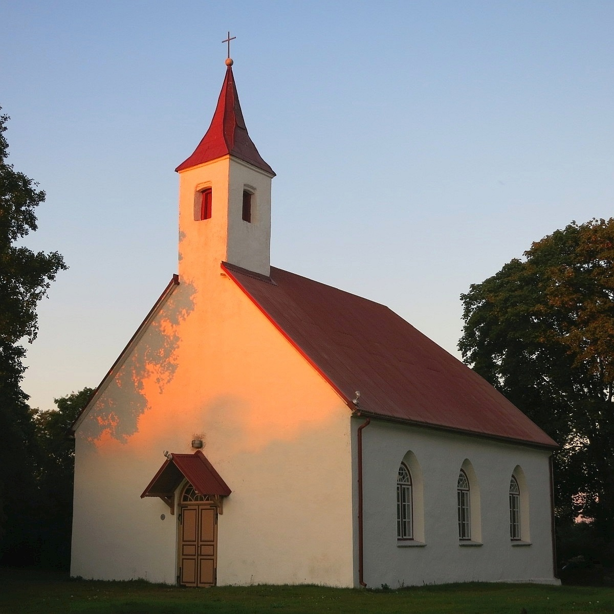 Randvere Church (Harju County, Estonia)